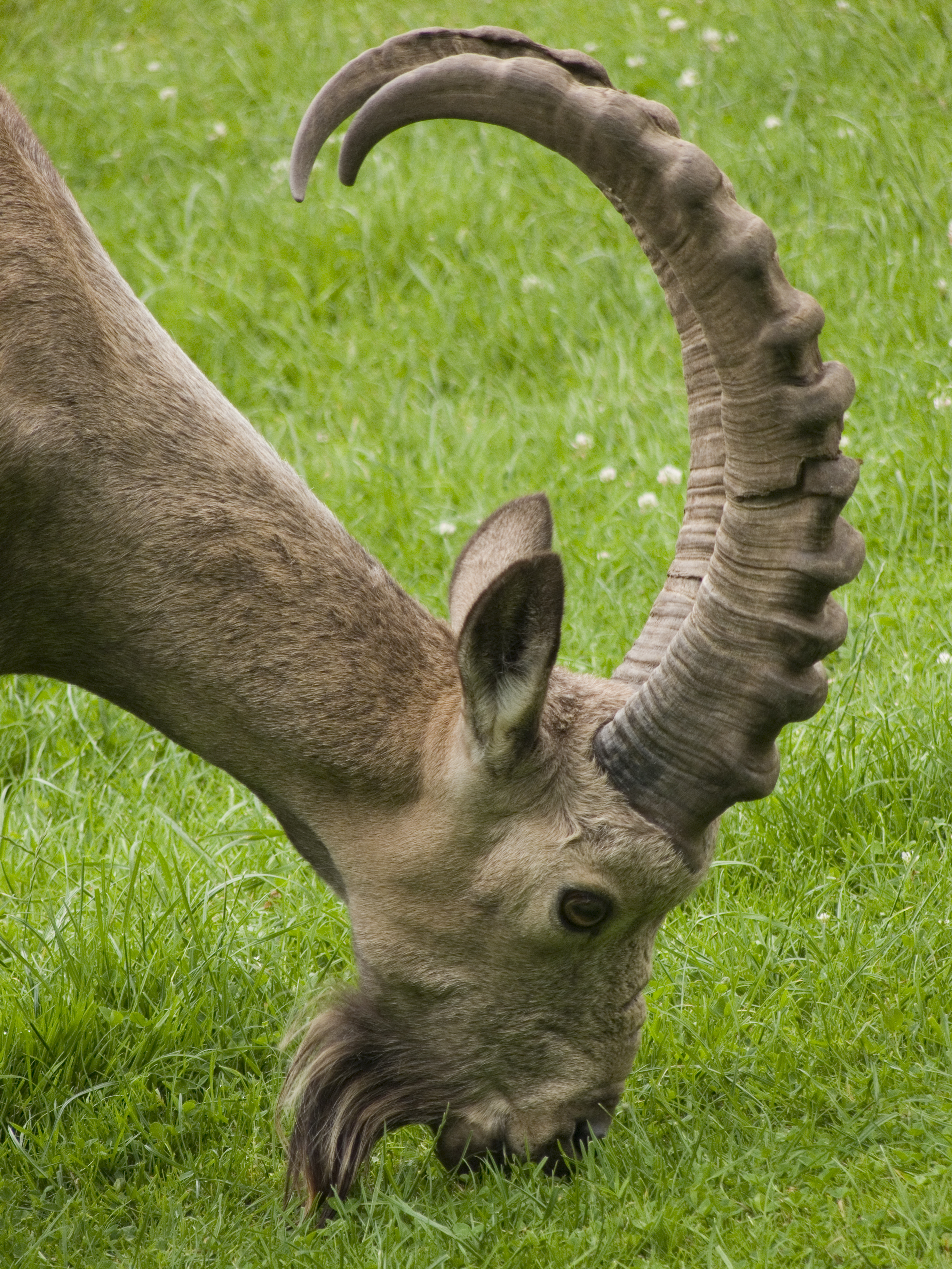 Siberian Ibex